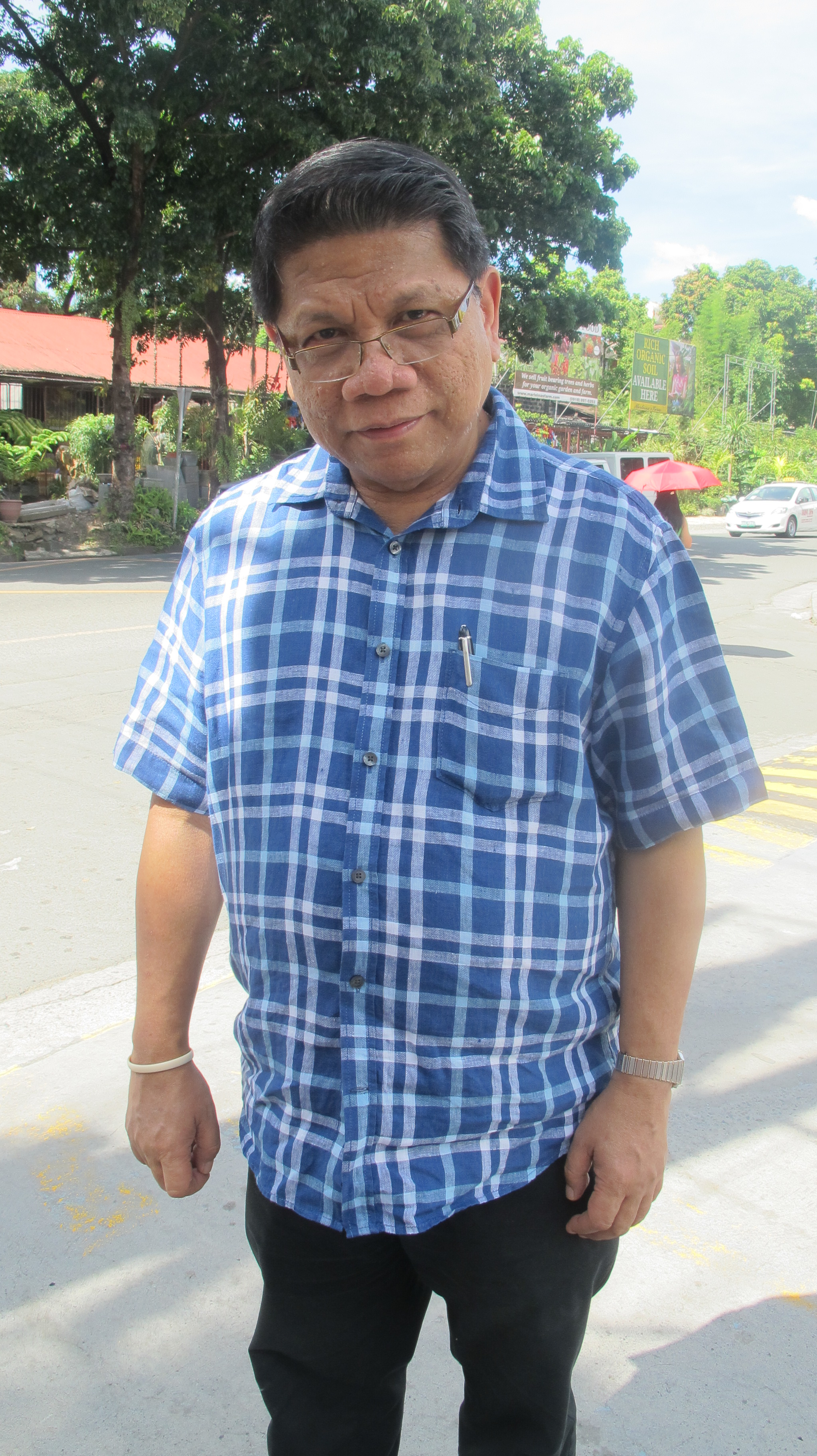 Journalist Mike Enriquez of GMA News and Public Affairs at the Pinesville gate of White Plains Subdivision in Quezon City, Metro Manila, the Philippines. Tagalog: Si Mike Enriquez, isang mamamahayag mula sa GMA News and Public Affairs, sa lagusang Pinesville ng White Plains Subdivision sa Lungsod Quezon, Kalakhang Maynila, Pilipinas.